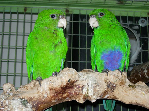 Blue-bellied Parrot (also known as the Purple-bellied Parrot); two in a cage with a nestbox.